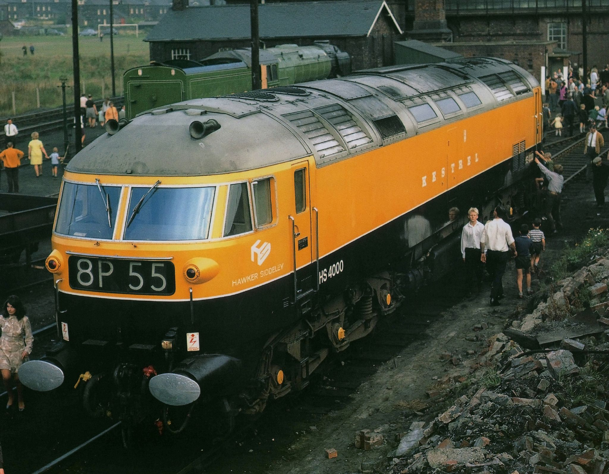 Every one and their grandmother must have this shot,camera shutters fired off in unison as the pretty young lady near the buffer came into shot. LOL In my opinion this was one of the most handsome loco,s that never was to be. This shot was taken with a Zenith E SLR which I had bought 1 hour earlier at John Dents in Chesterfield and so became the first shot I took with it.I still have the camera and lenses and it still works though the light meter is a bit slow now.